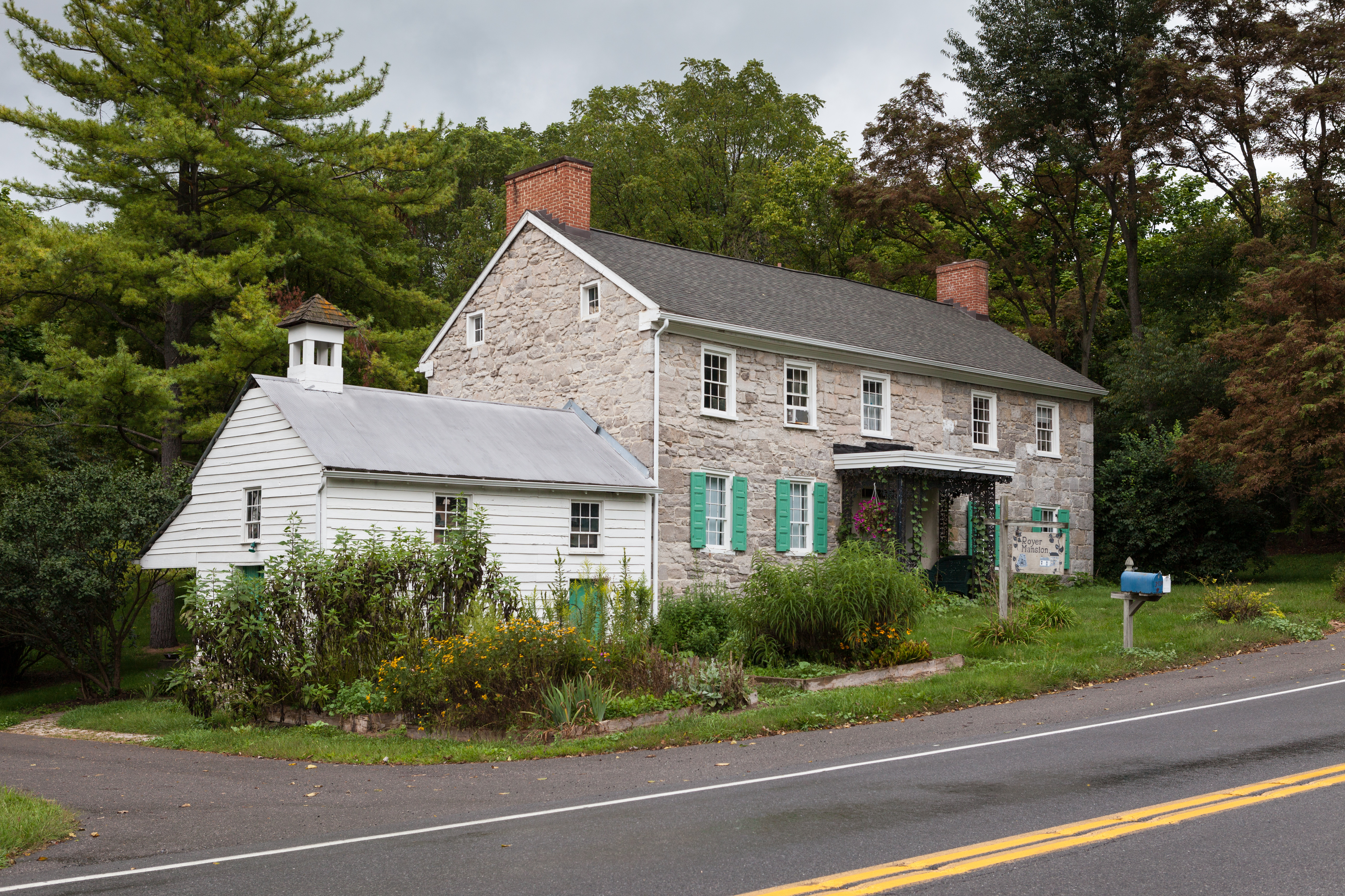 South and east sides of the Daniel Royer House, a historic home located at Woodbury Township, Blair County, Pennsylvania